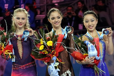 The ladie's podium at the 2014-2015 ISU Junior Grand Prix Final. From left: Serafima Sakhanovich (2nd), Evgenia Medvedeva (1st), Wakaba Higuchi (3rd).